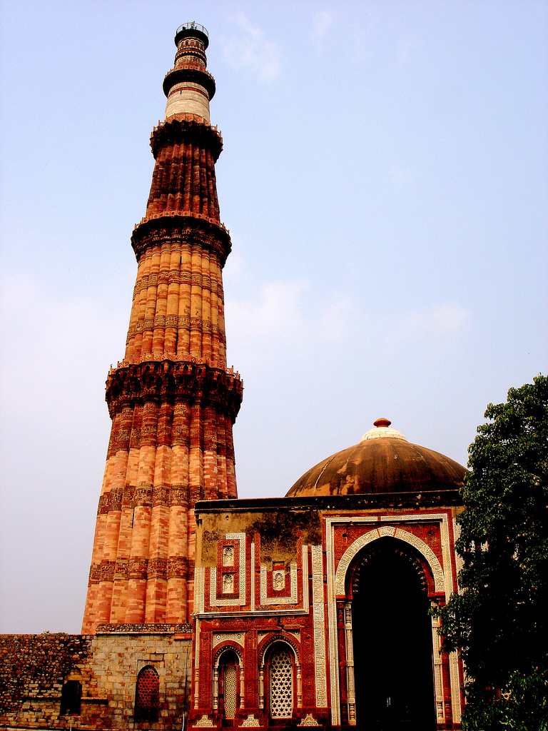 Qutub Minar (Hindi : ?????? ????? Urdu: ??? ????) is the tallest brick minaret in the world, and an important example of Indo-Islamic Architecture. The tower is in the Qutab complex in South Delhi, India. The Qutab Minar and its monuments are listed as a UNESCO World Heritage Site. The Qutub Minar is 72.5 metres high (237.8 ft) and requires 399 steps to get to the top.